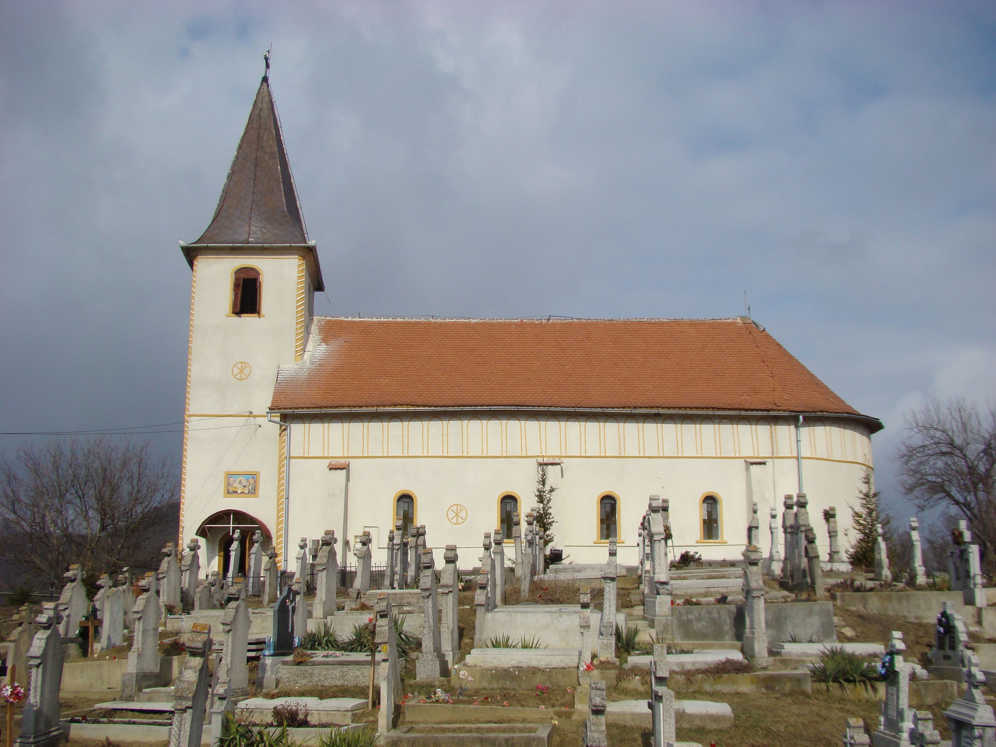 The orthodox church in Bazna, Sibiu county, Romania